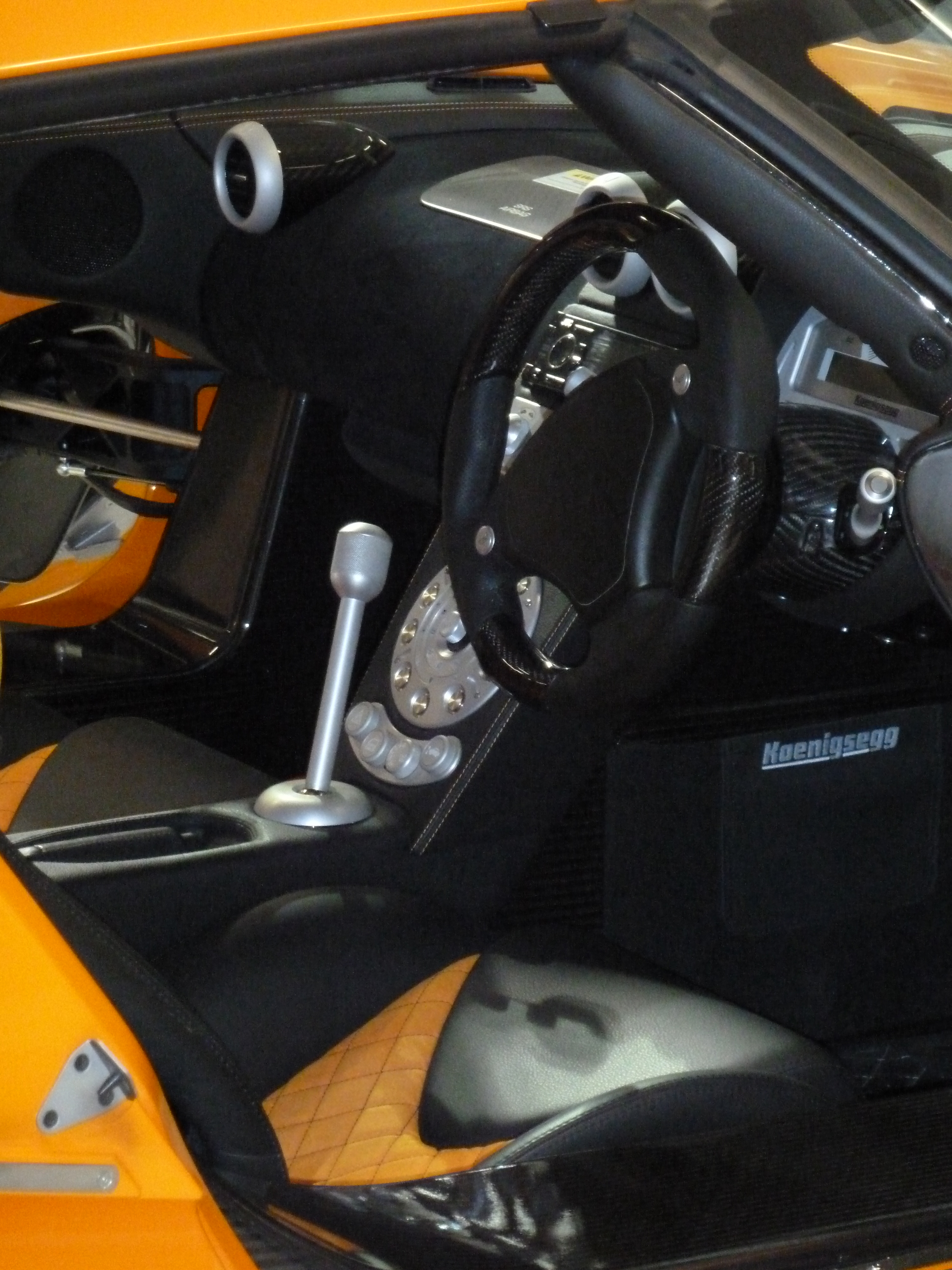 Koenigsegg CCX roadster. Photographed at the 2010 Australian International Motor Show, Sydney, New South Wales, Australia.